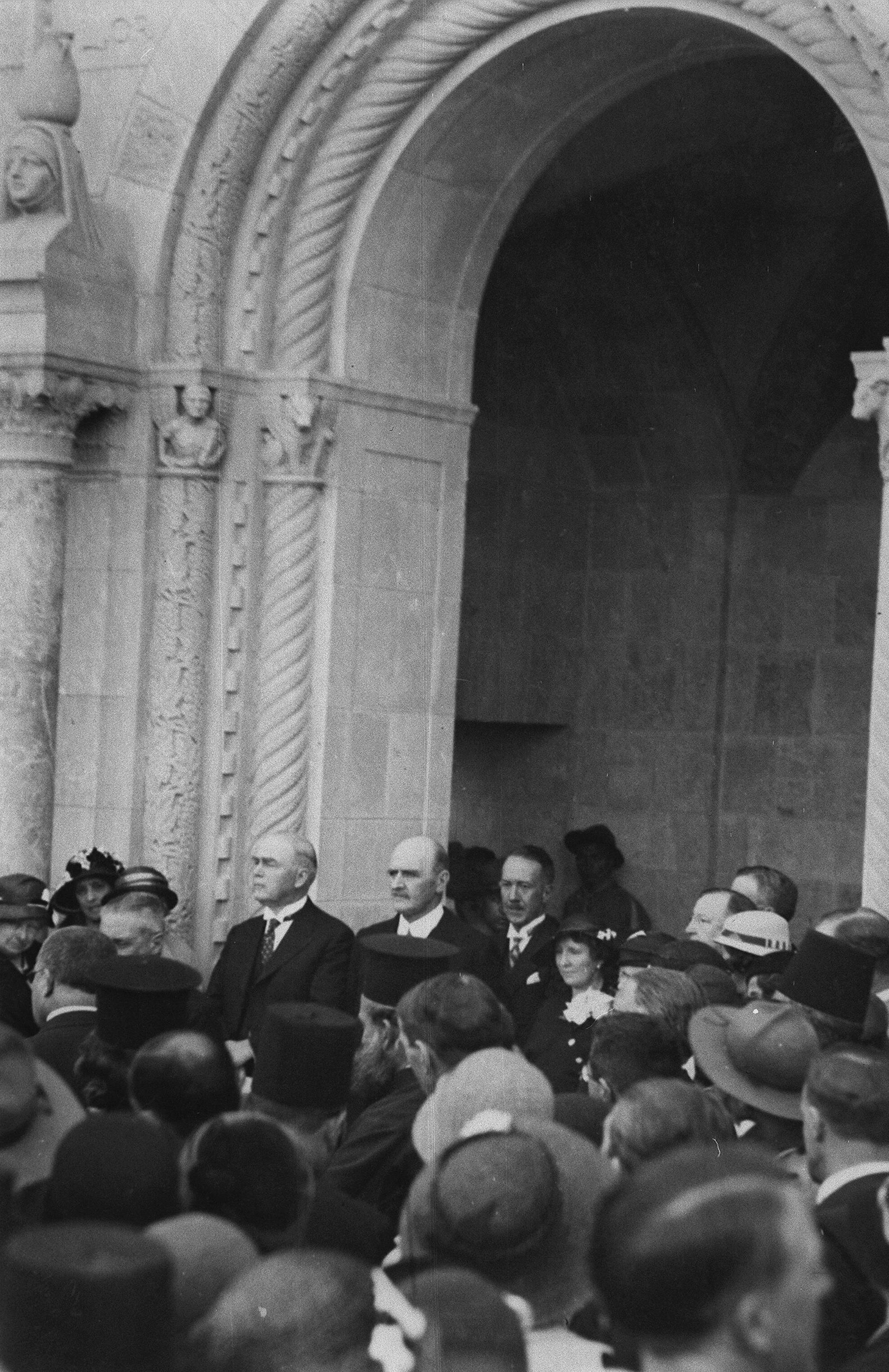 KEY "HANDING OVER" CEREMONY AT THE NEW Y.M.C.A. BUILDING, IN JERUSALEM.